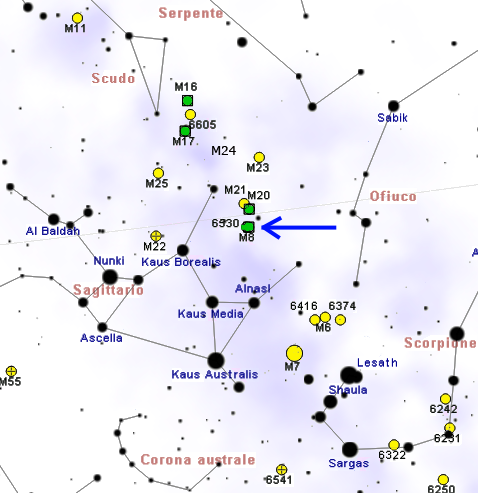 M8